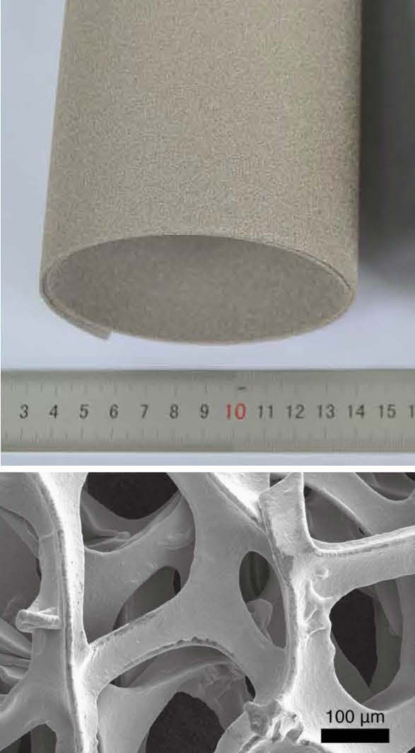 An optical image (top) and an SEM image (bottom) of a Ni foam